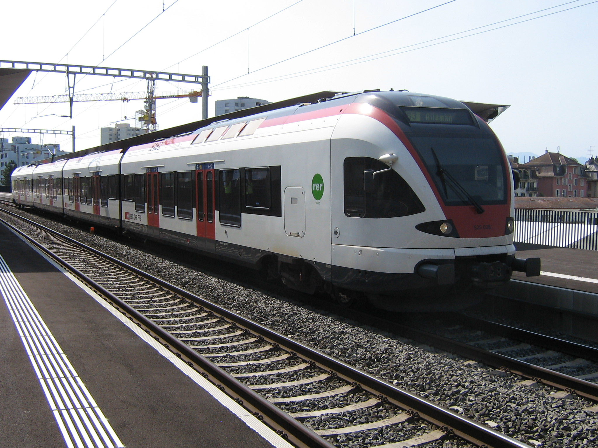 Train FLIRT RABe 523 028 of the S3 line at destination to Allaman, leaving the station Prilly-Malley.